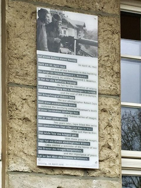 Memorial in Capa House - Opening 2016